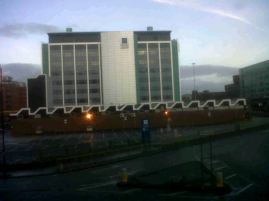 A photograoh taken using my mobile phone